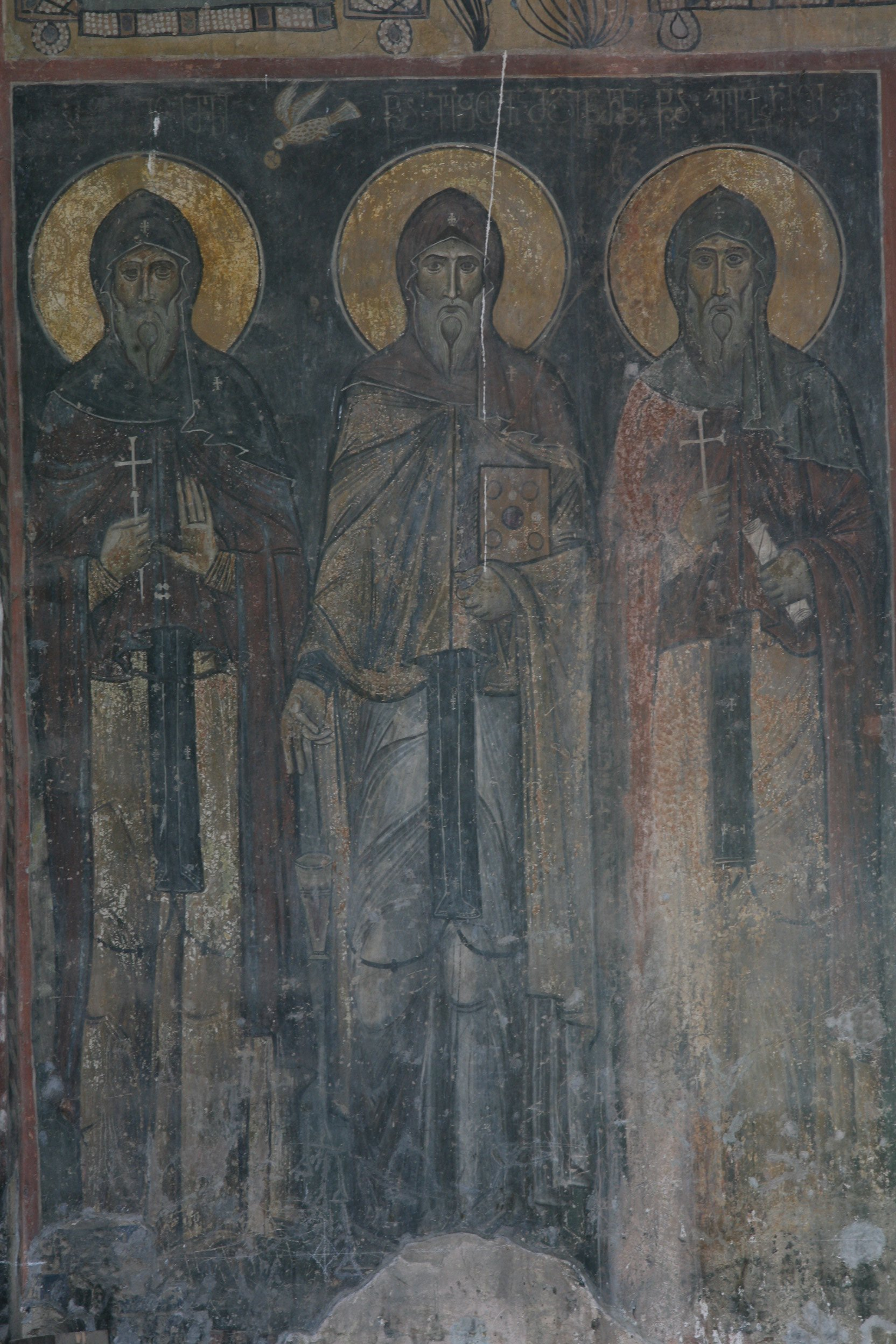 A group of Georgian saints. According to the accompanying Georgian inscriptions these are, from left to right: St. Shio Mgvimeli (of the Cave), Ioann Shuvamdinareli (of Mesopotamia, a.k.a. Zedazneli), and Evagre. Source: Lidov, A. (1991), The mural paintings of Akhtala, p. 72. Nauka.